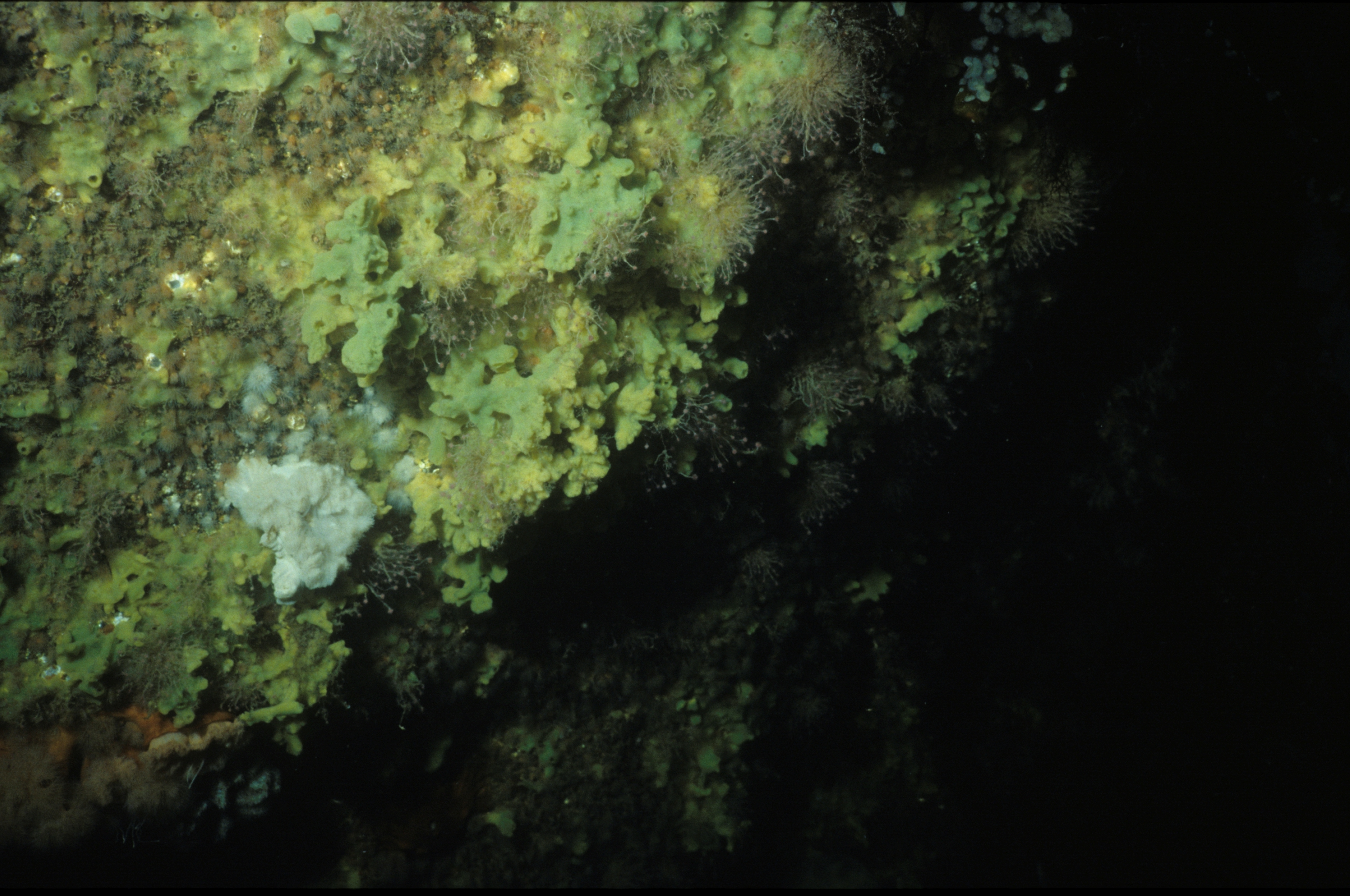 Breadcrumb sponge Halichondria panicea on the boulder surface.